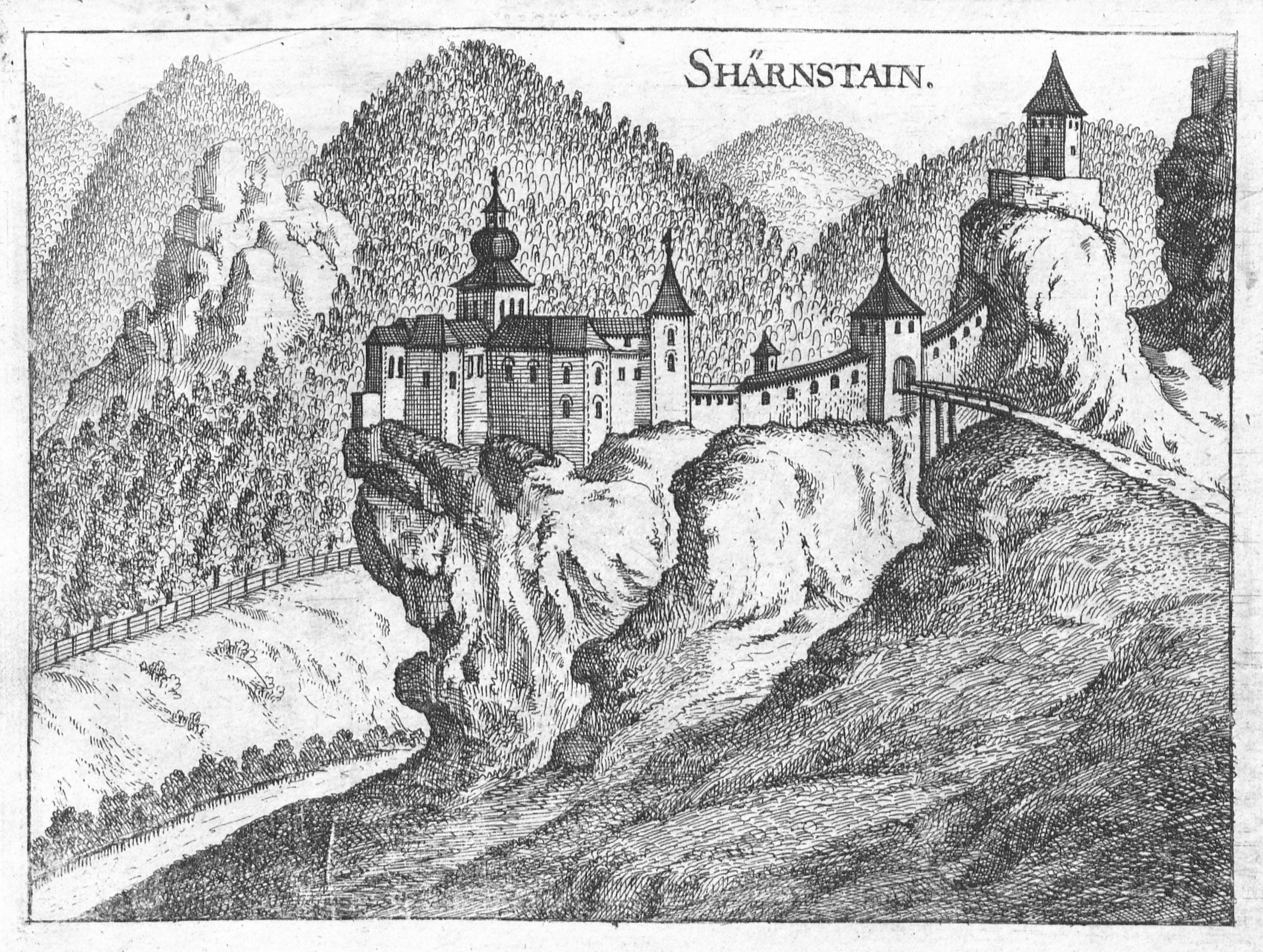 Engraving, view of Scharnstein castle, Upper Austria